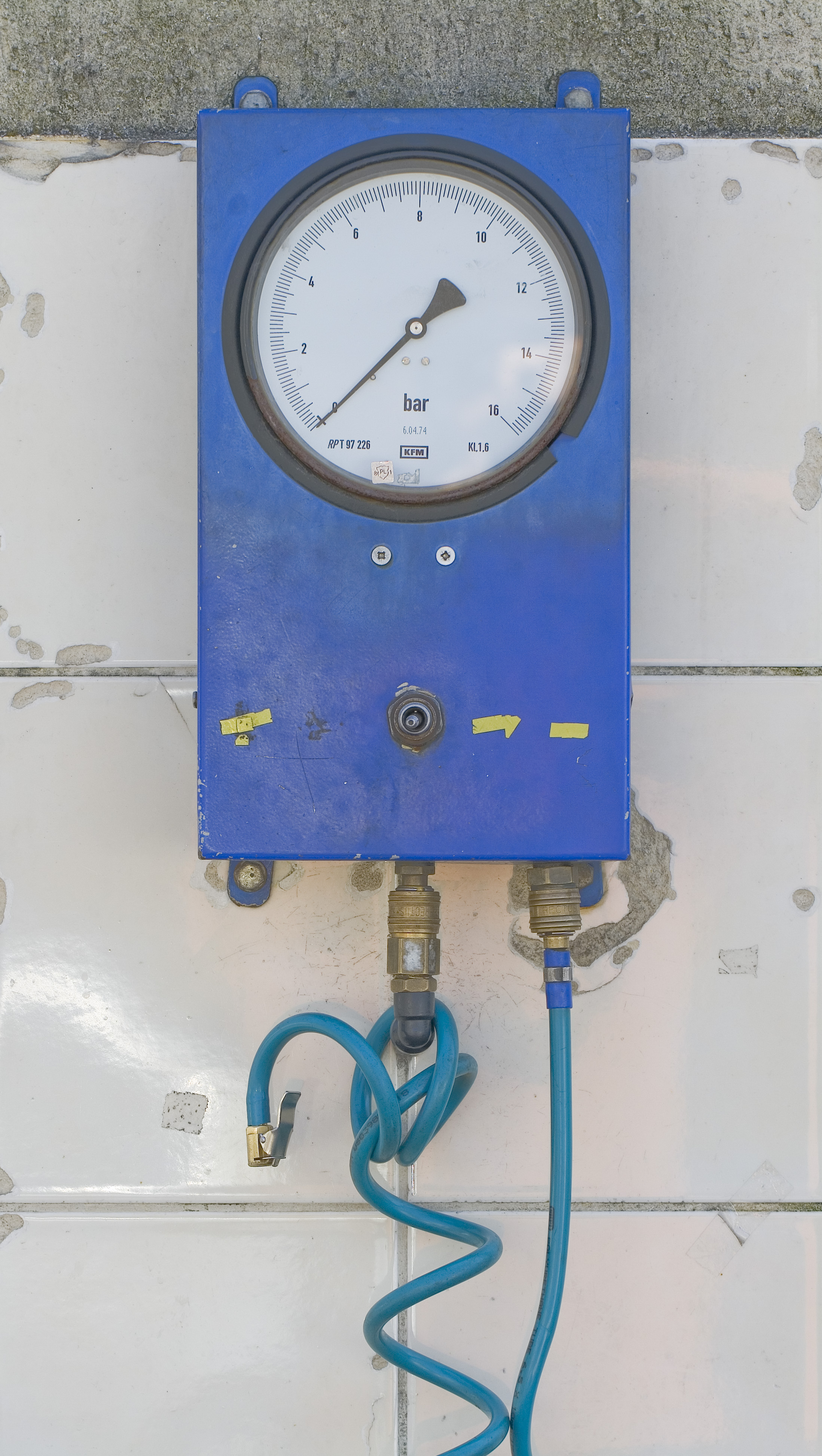 Tyre pressure gauge, Gniezno, Poland